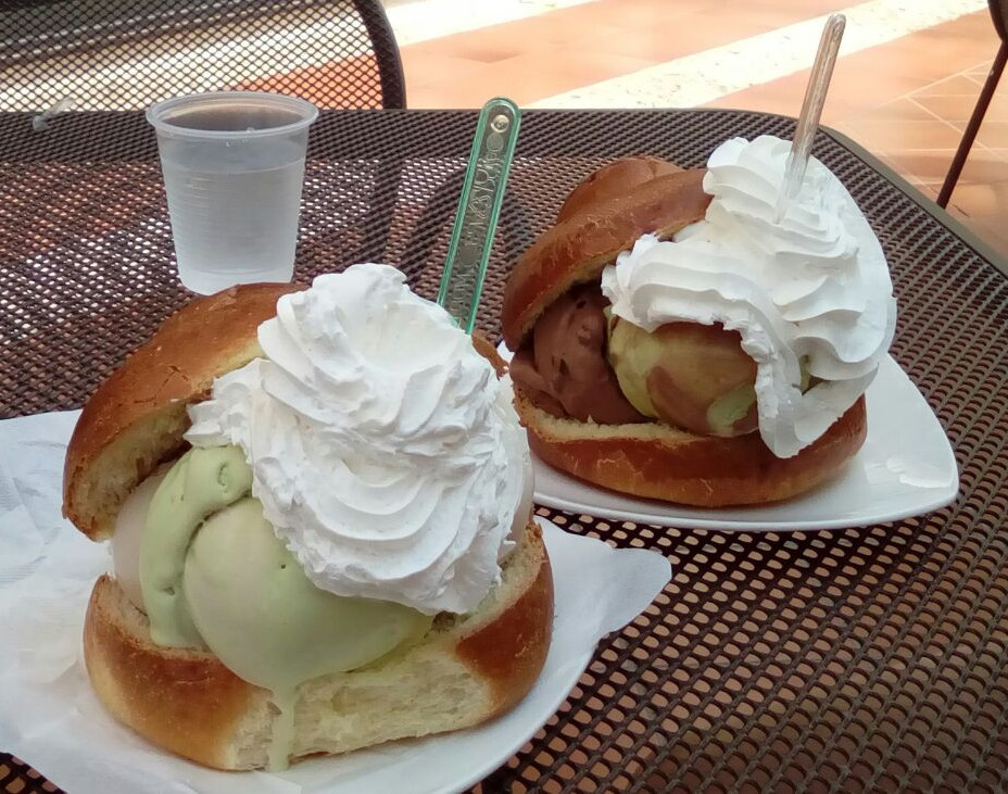 Brioche filled with ice cream and cream